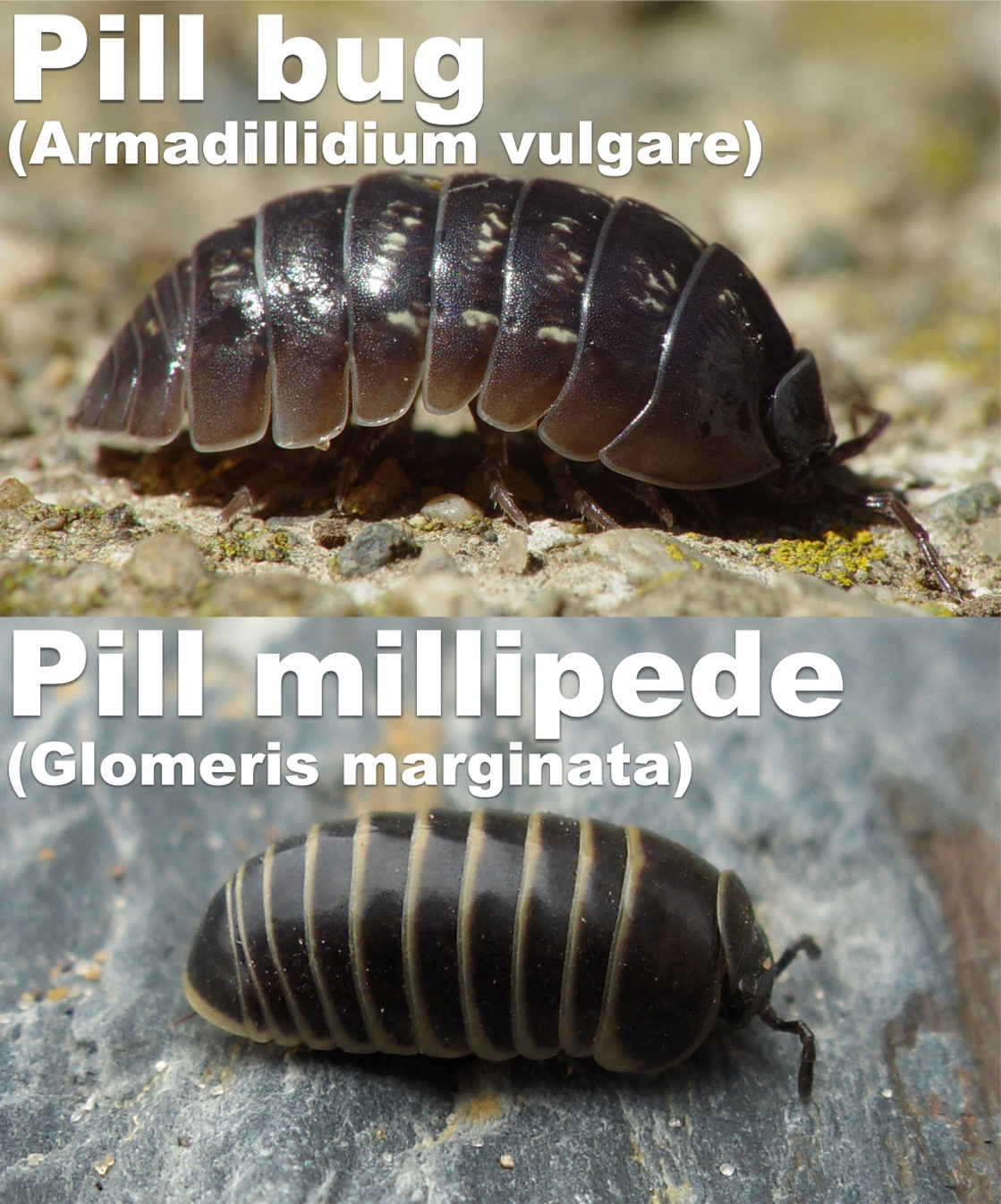 Comparison of Armidillidium and Glomeris.